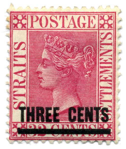 Scan of Straits Settlements 3c on 32c overprint stamp of 1894